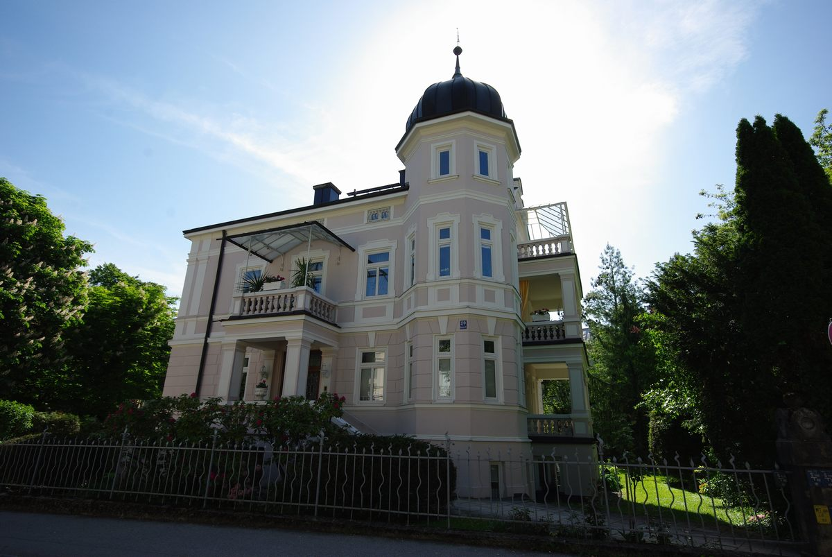 Salzburger Str. 20, Bad Reichenhall